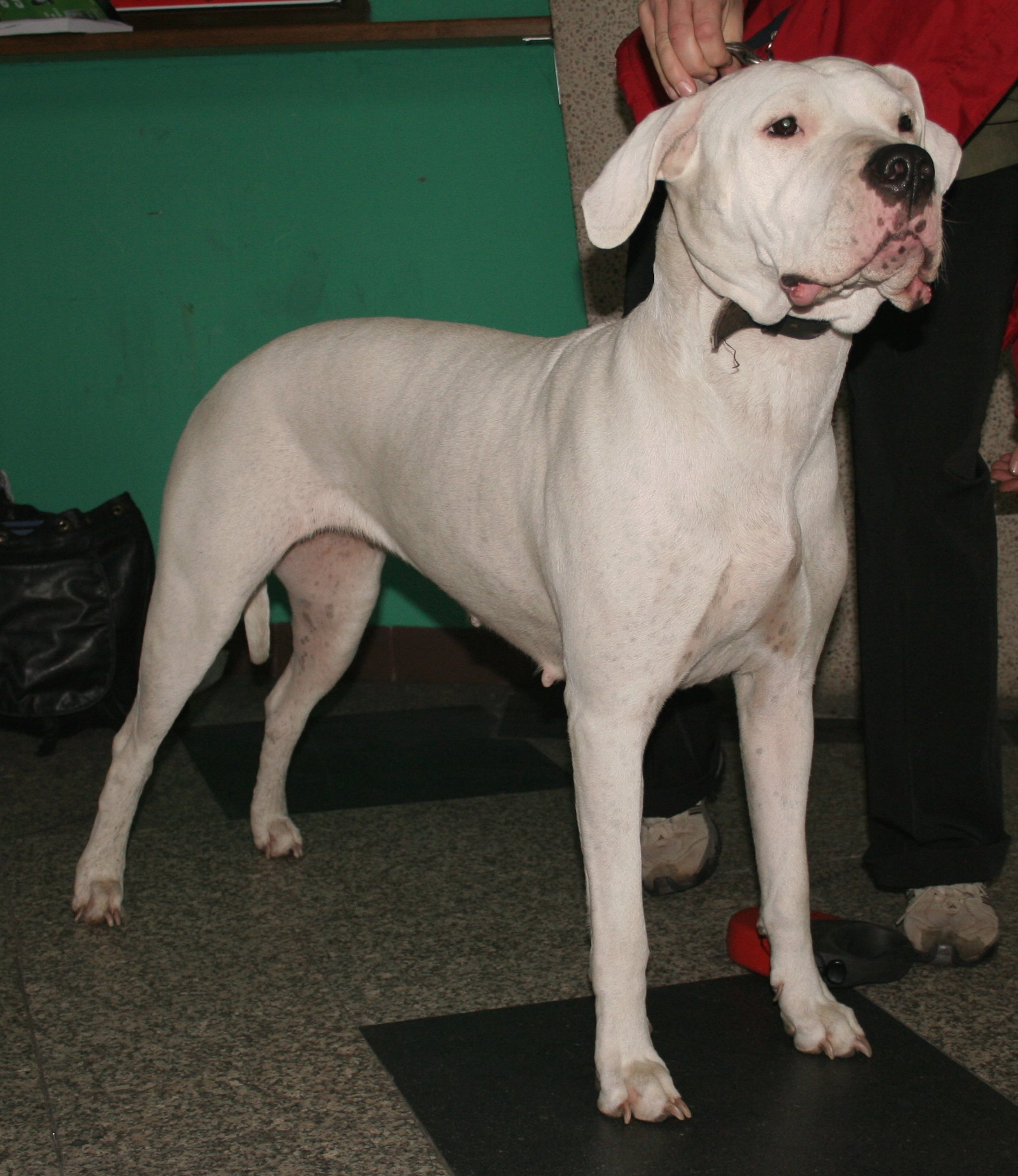 Dogo Argentino during dogs show in Katowice, Poland